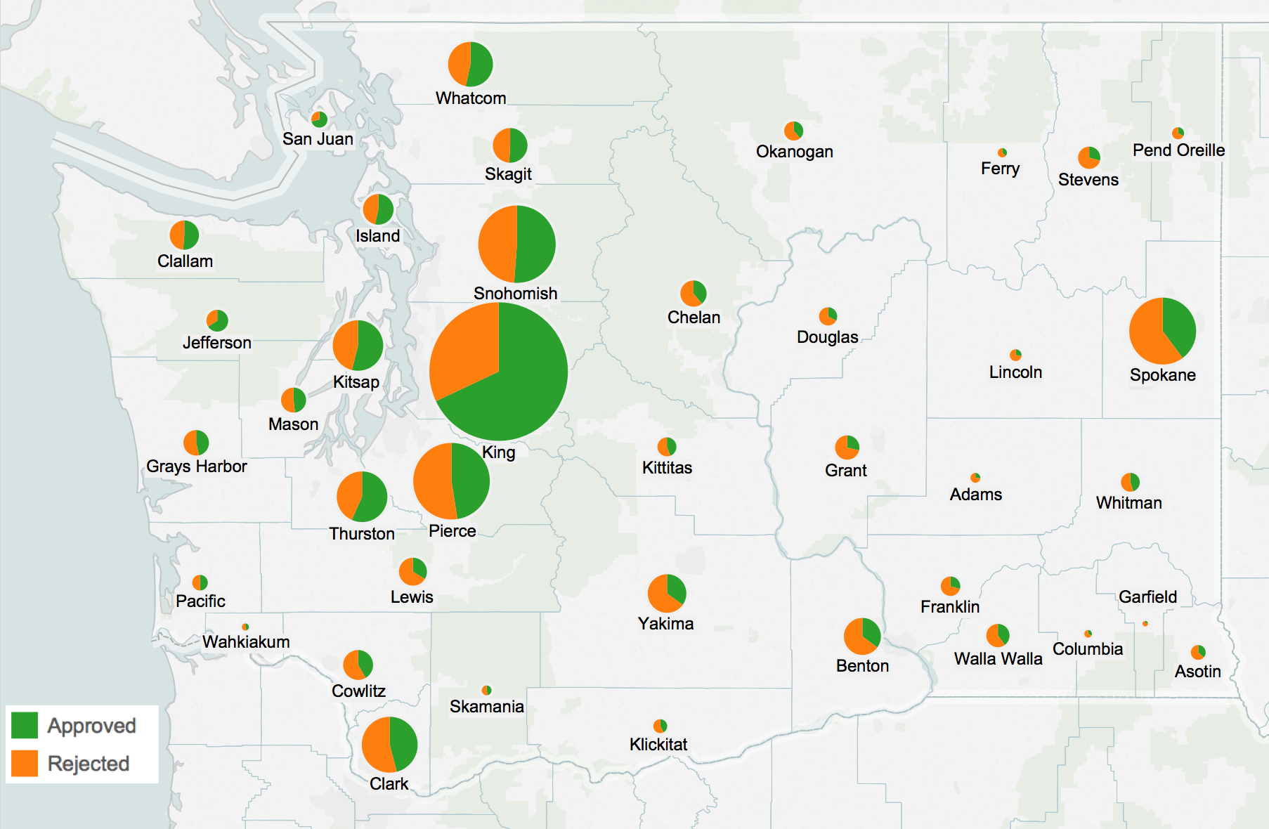 Results of Washington Referendum 71. Approve in green, rejected in orange, with size showing number of votes, by county. Data from November 03, 2009 General Election Results, Washington Secretary of State. CountyChoiceVotesAdamsApproved763AdamsRejected2099AsotinApproved2372AsotinRejected4123BentonApproved14180BentonRejected26195ChelanApproved7938ChelanRejected12380ClallamApproved12949ClallamRejected12270ClarkApproved42256ClarkRejected49736ColumbiaApproved572ColumbiaRejected1153CowlitzApproved10955CowlitzRejected15389DouglasApproved3222DouglasRejected6576FerryApproved928FerryRejected1587FranklinApproved3301FranklinRejected7886GarfieldApproved205GarfieldRejected699GrantApproved5028GrantRejected12454Grays HarborApproved8941Grays HarborRejected10285IslandApproved14741IslandRejected12844JeffersonApproved9280JeffersonRejected4775KingApproved384042KingRejected180821KitsapApproved40400KitsapRejected34678KittitasApproved4709KittitasRejected5918KlickitatApproved2391KlickitatRejected3317LewisApproved7801LewisRejected15273LincolnApproved1073LincolnRejected2984MasonApproved8923MasonRejected9592OkanoganApproved4147OkanoganRejected6637PacificApproved3571PacificRejected3634Pend OreilleApproved1367Pend OreilleRejected2898PierceApproved82189PierceRejected90584San JuanApproved5468San JuanRejected2236SkagitApproved17969SkagitRejected17379SkamaniaApproved1311SkamaniaRejected1532SnohomishApproved90340SnohomishRejected86107SpokaneApproved52551SpokaneRejected79314StevensApproved4282StevensRejected10387ThurstonApproved42807ThurstonRejected32732WahkiakumApproved668WahkiakumRejected821Walla WallaApproved6394Walla WallaRejected9633WhatcomApproved31720WhatcomRejected27598WhitmanApproved4738WhitmanRejected5776YakimaApproved15330YakimaRejected28540Date11 December 2016SourceOwn workAuthorDennis Bratland Licensing[edit]